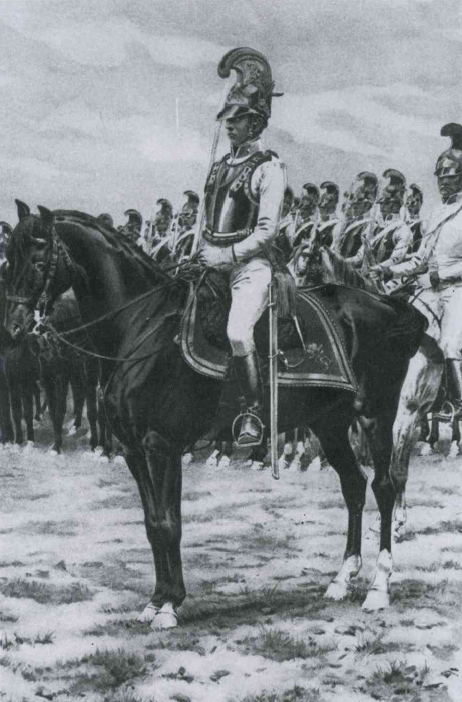 Published in Austrian Army of the Napoleonic Wars (2): Cavalry by Philip Haythorntwaite, Osprey Men-at-Arms Series